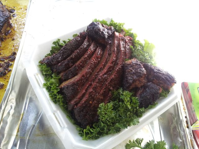 Beef brisket with burnt ends ready for competition submission according to Kansas City Barbecue Society rules.